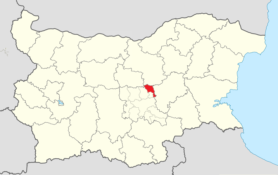 Location map of Gurkovo Municipality within Bulgaria and Stara Zagora Province